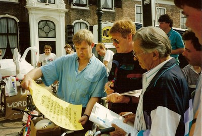 Peter van der Sluijs from Spijkenisse with one of his tv perforings.